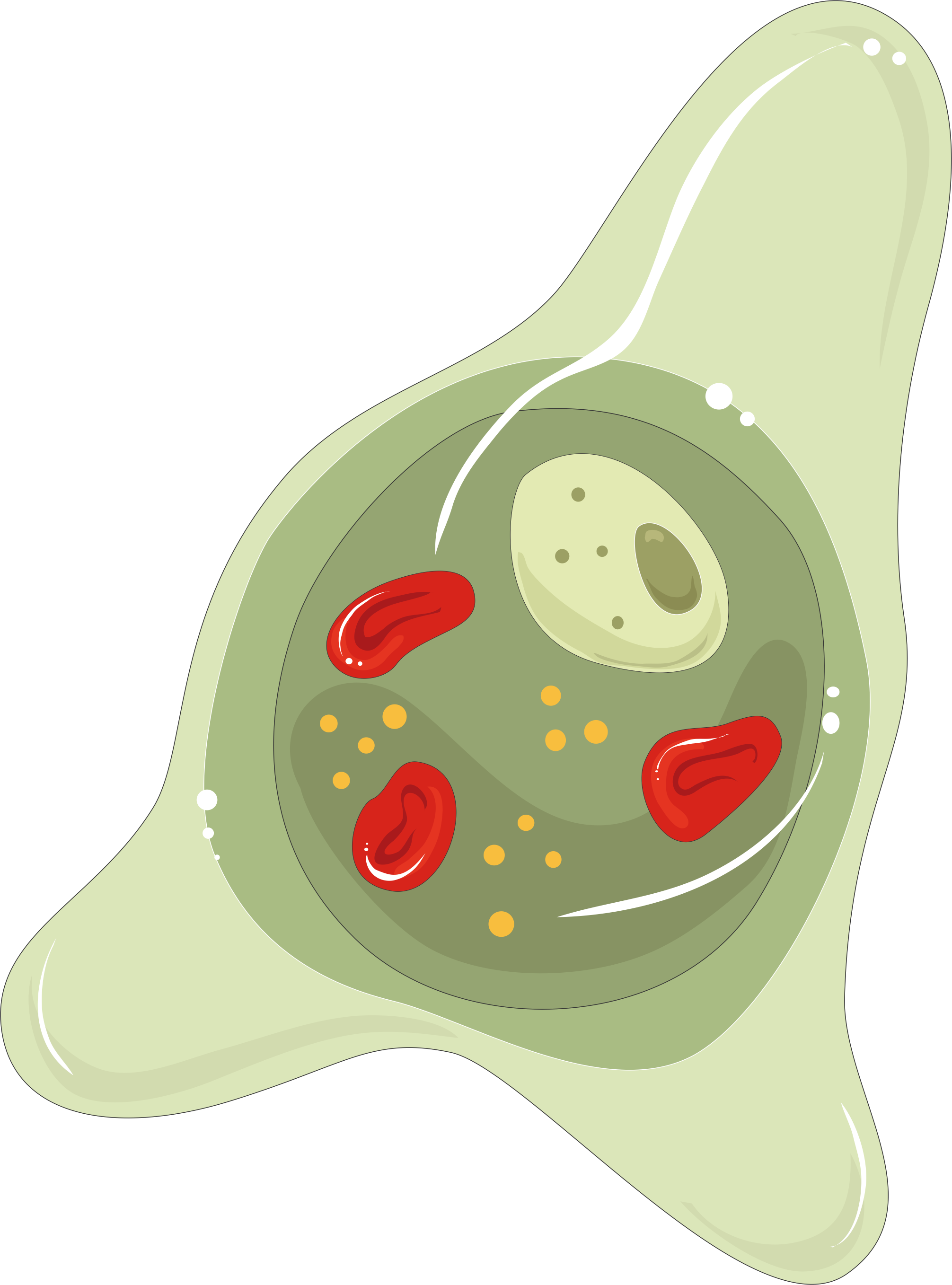 Entamoeba histolytica